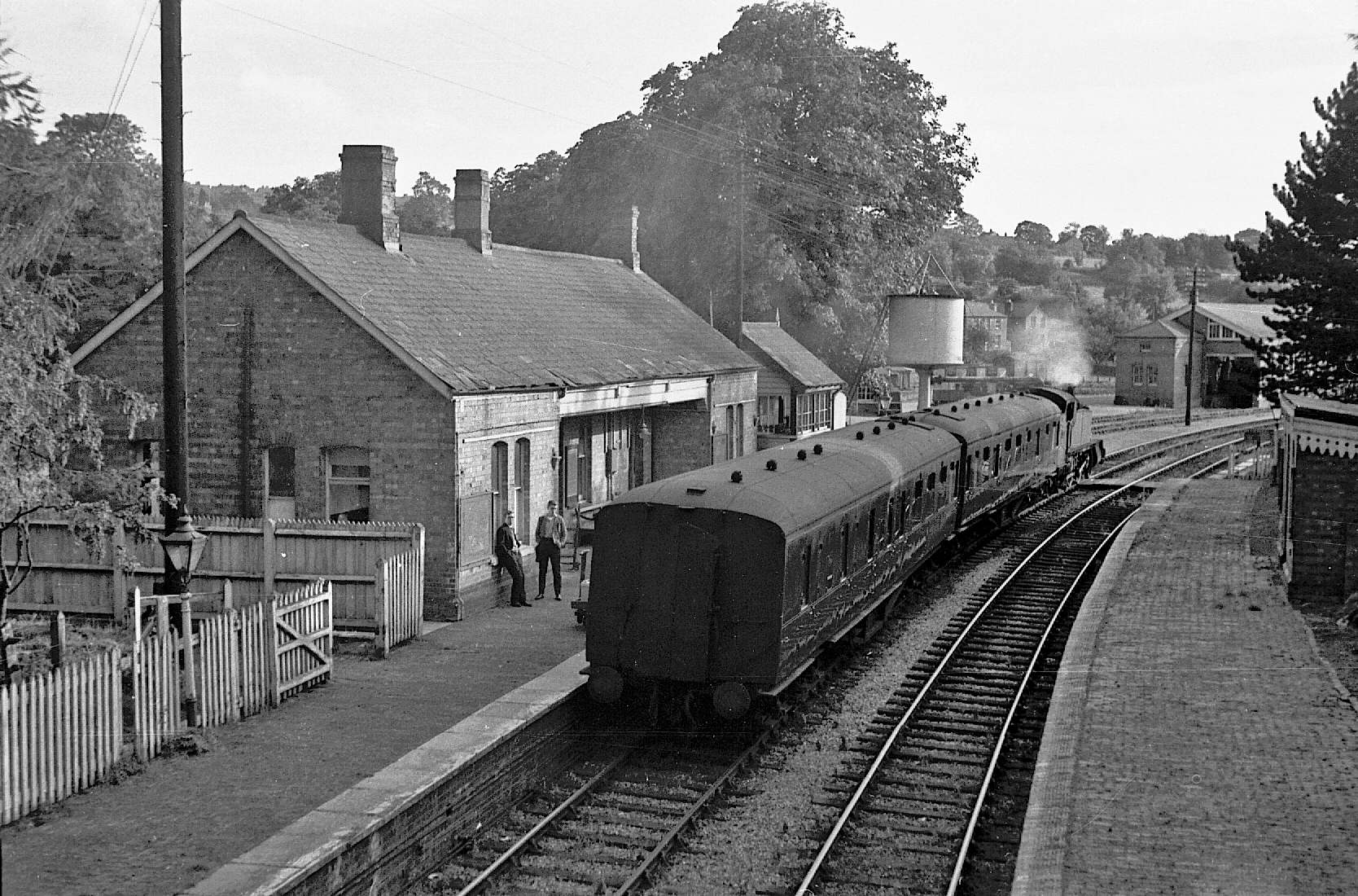 Chipping Norton Station. Steam locomotive with two passesnger coaches.